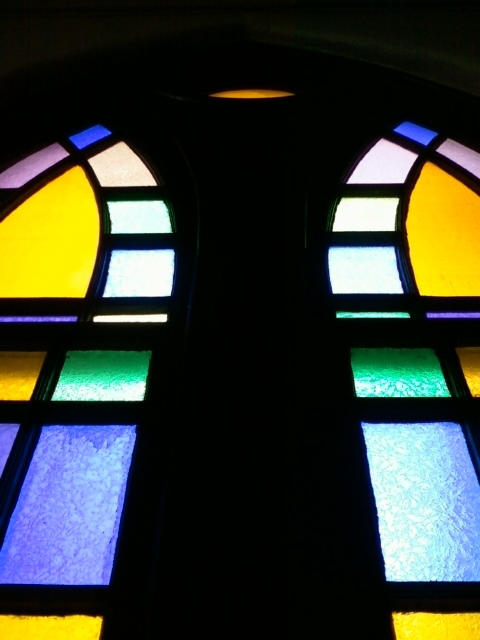 A view of one of the stained glass windows inside of Laurel Hill Presbyterian Church.